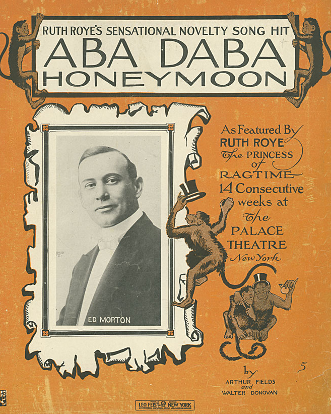 Aba Daba Honeymoon music sheet cover, with cartoon monkeys and photograph of singer Ed Morton.